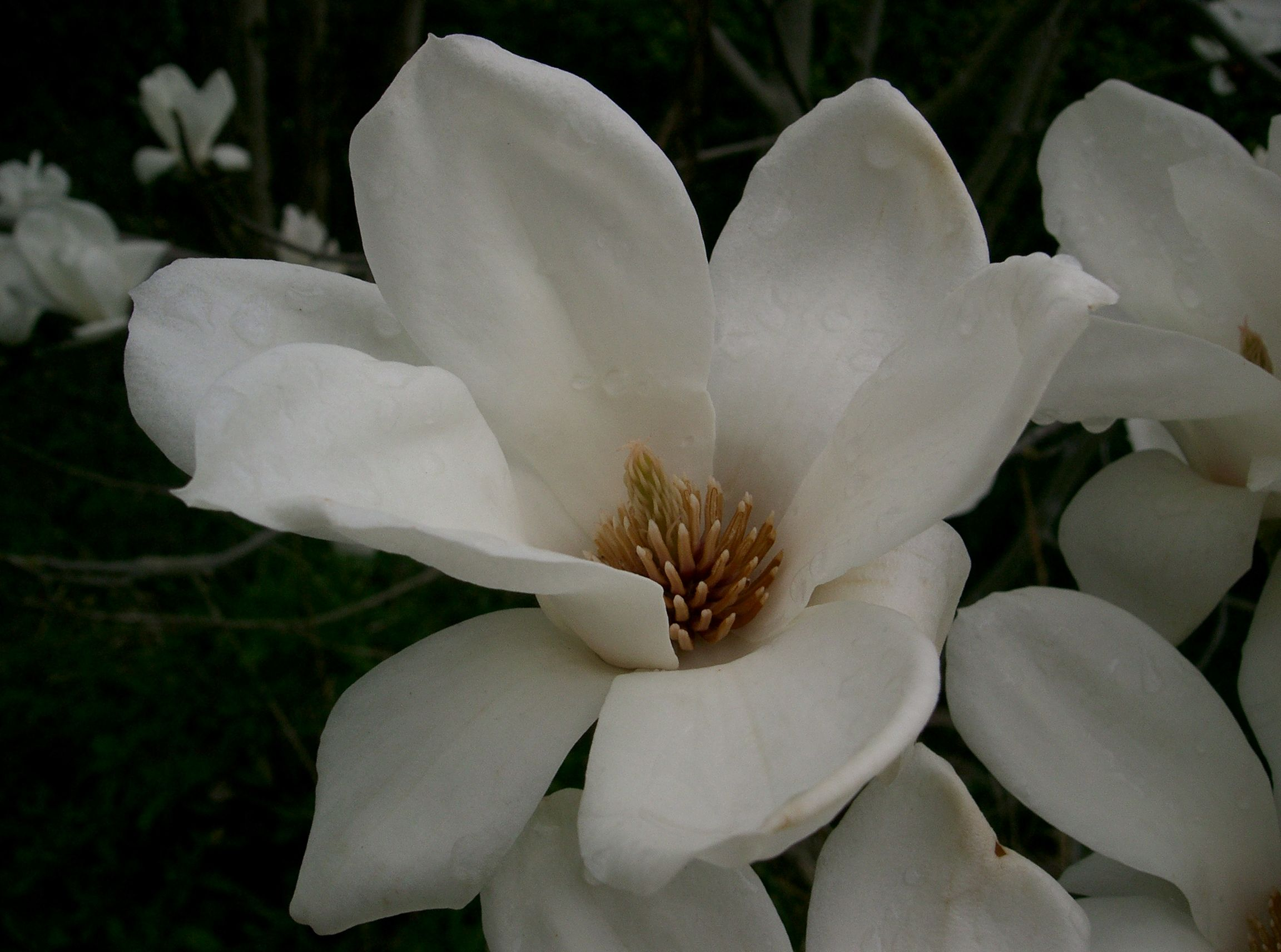 Magnolia denudata flower photographed in Osaka-fu Japan